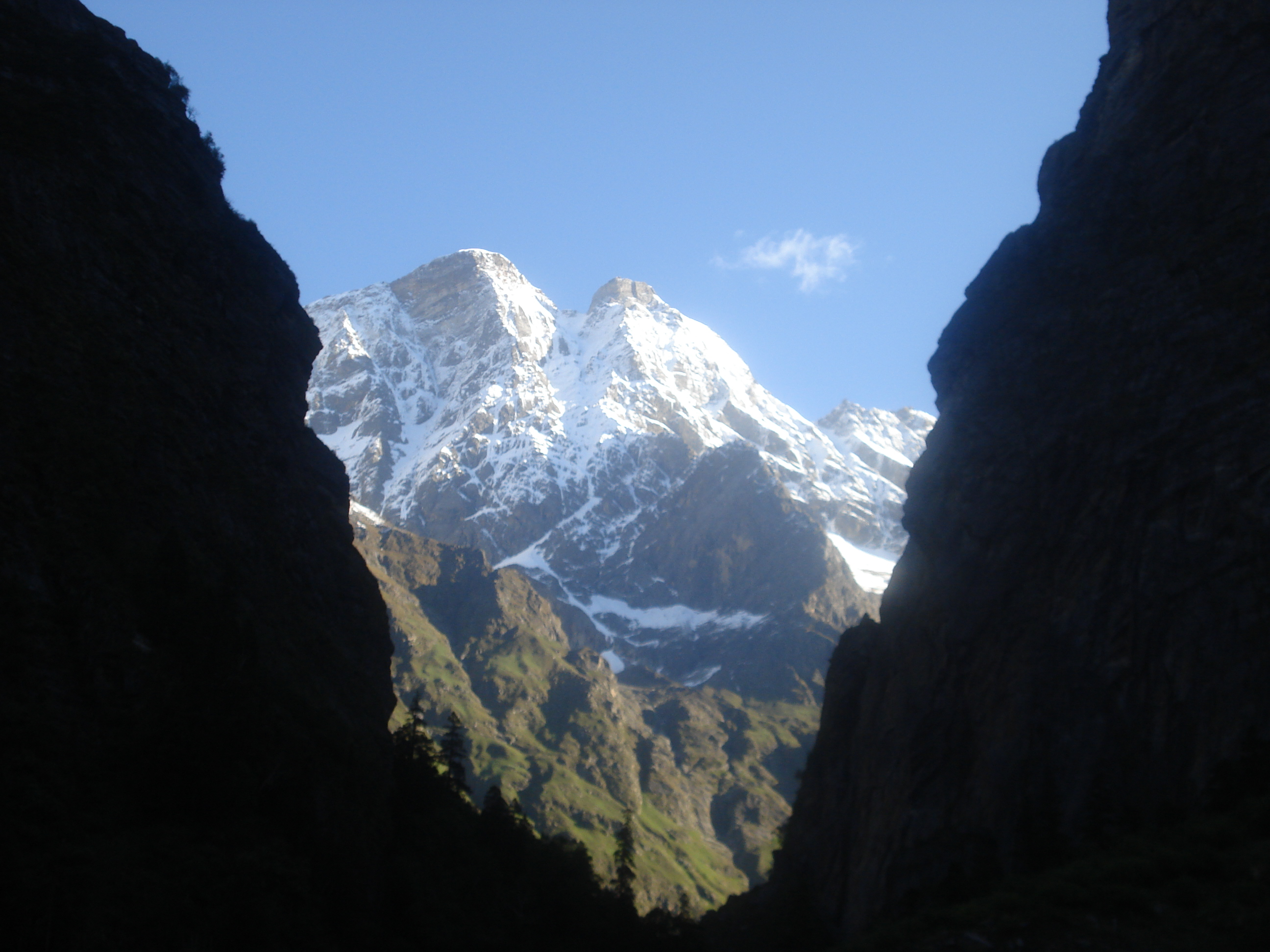 View of Greater Himalayas from Valley of Flowers.